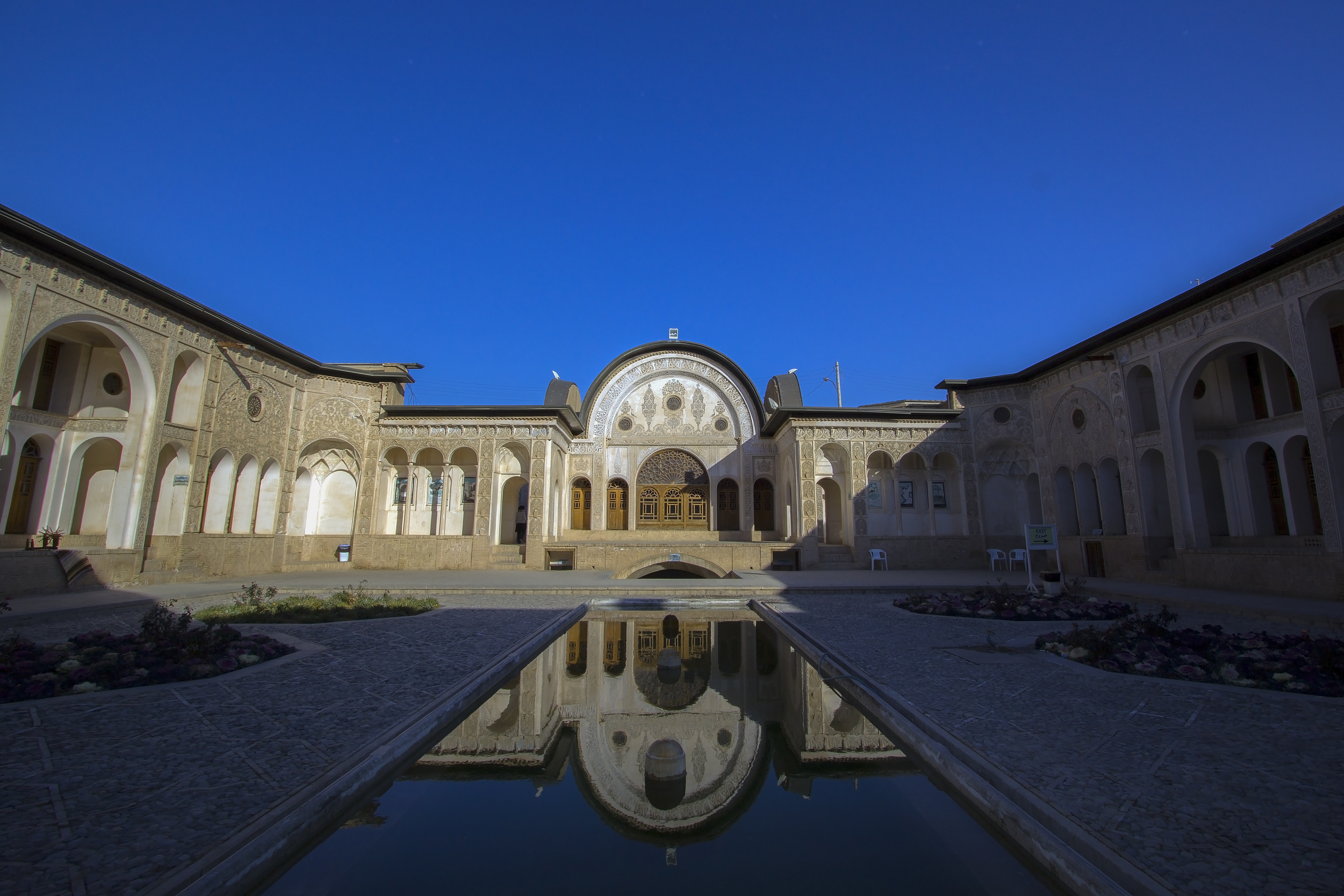 The Tabātabāei House is a historic house in Kashan, Iran. It was built in the early 1880s for the affluent Tabatabaei family.